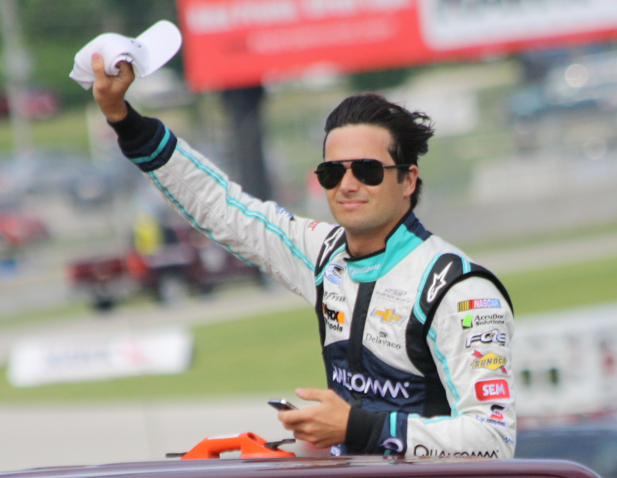 NASCAR driver Nelson Piquet, Jr. at the 2013 Johnsonville Sausage 200 Nationwide Series race at Road America.